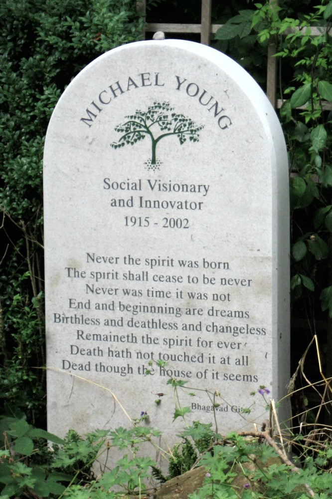 The gravestone of Michael Young, Baron Young of Dartington (9 August 1915 - 14 January 2002) in Highgate Cemetery, London, England.